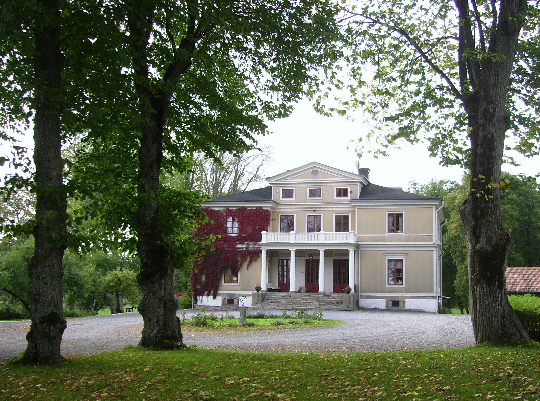 Picture of Åda mansion in Trosa kommun